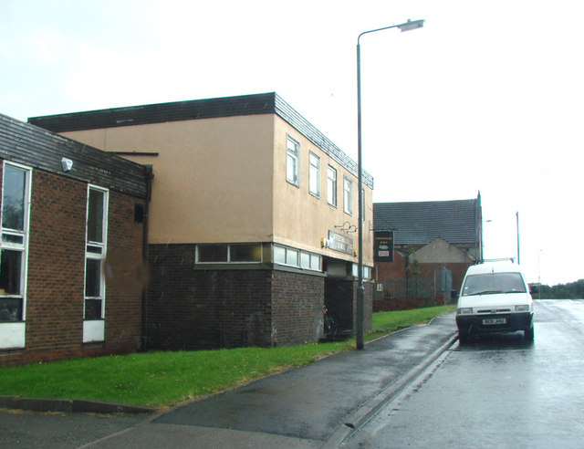 Streethouse working men's club Original description: Streethouse Working Mens Club